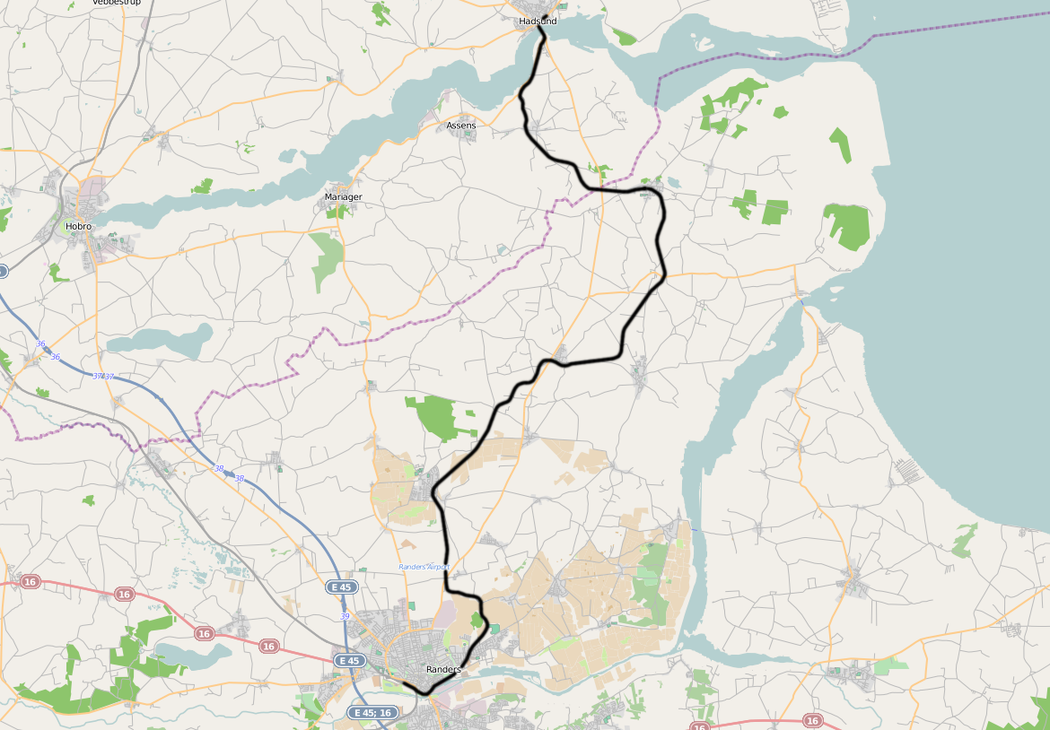 Railway line Randers - Hadsund